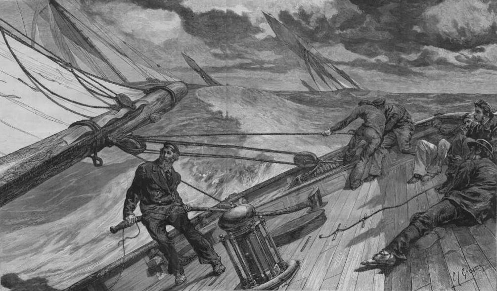 Yacht in a Regatta off Cowes, Isle of Wight; from an engraving published in Harper's Weekly, June 26, 1875.